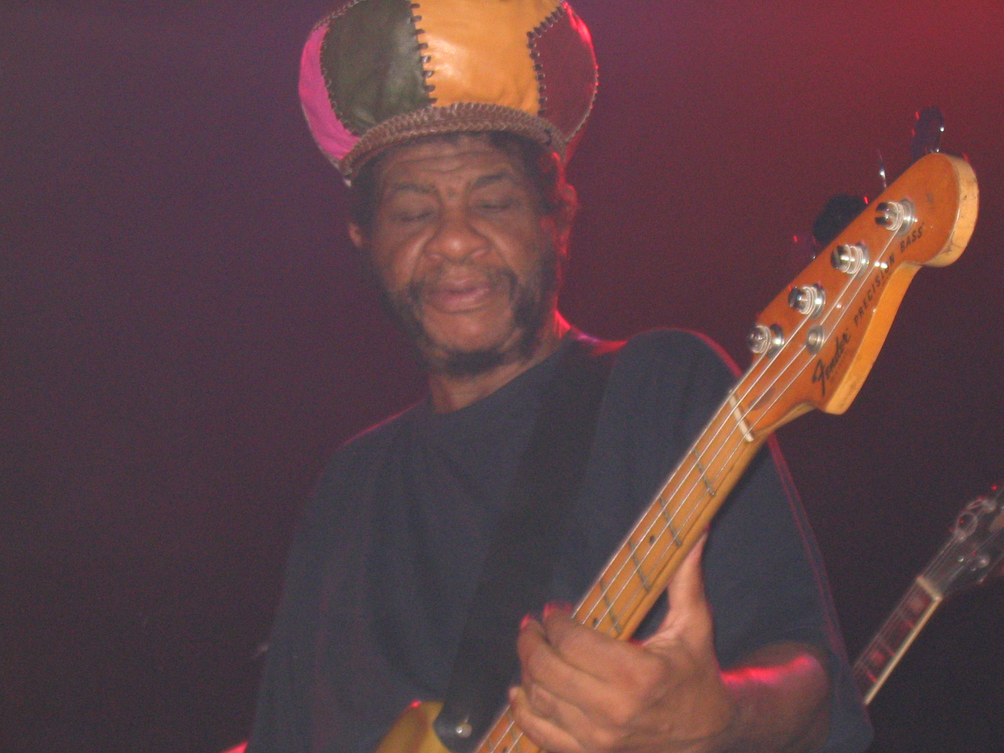 The reggae band Gladiators in concert in Rockstore, Montpellier, France, 11/20/06